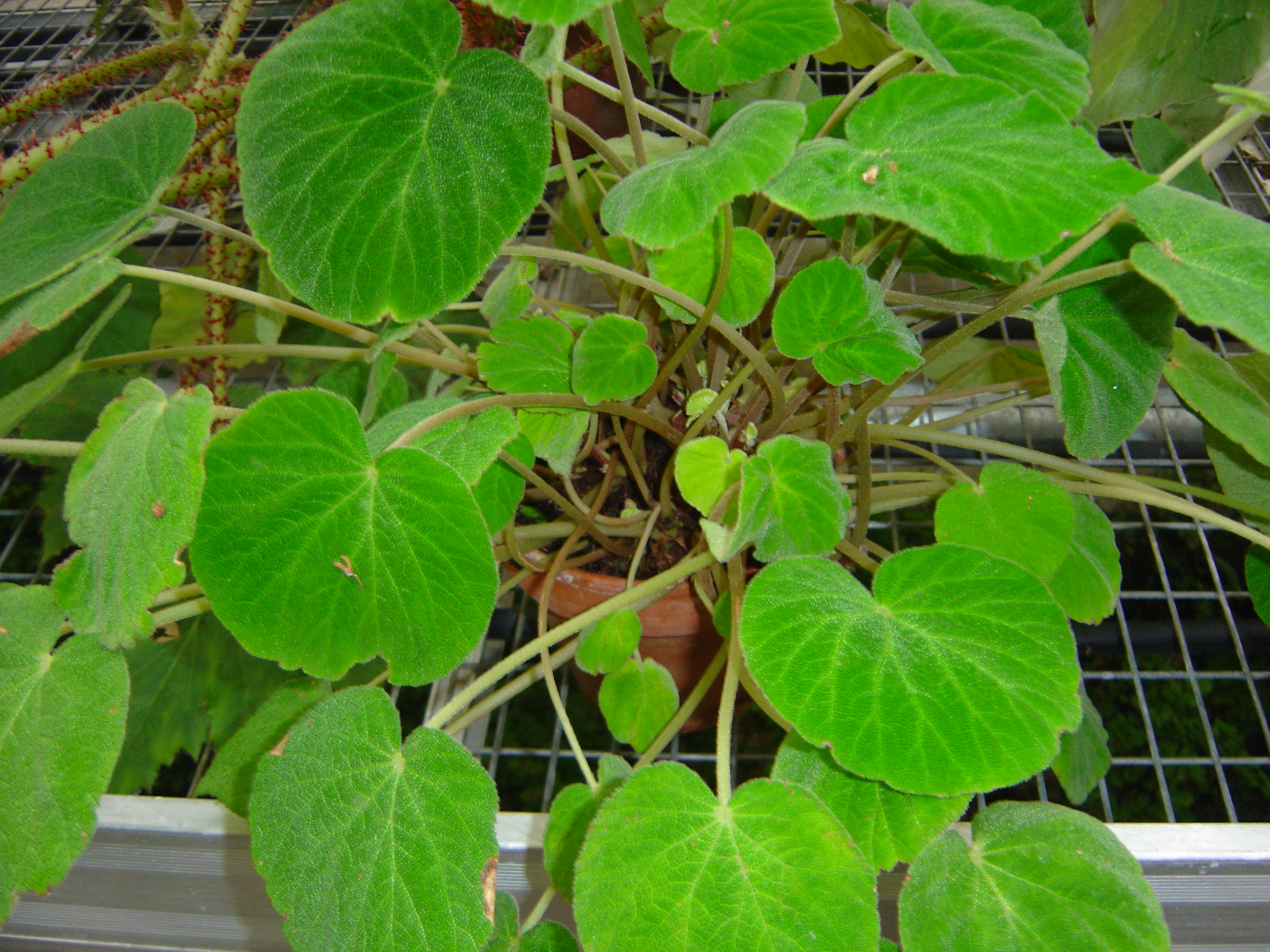 photo catch by myself : Solène Moutardier